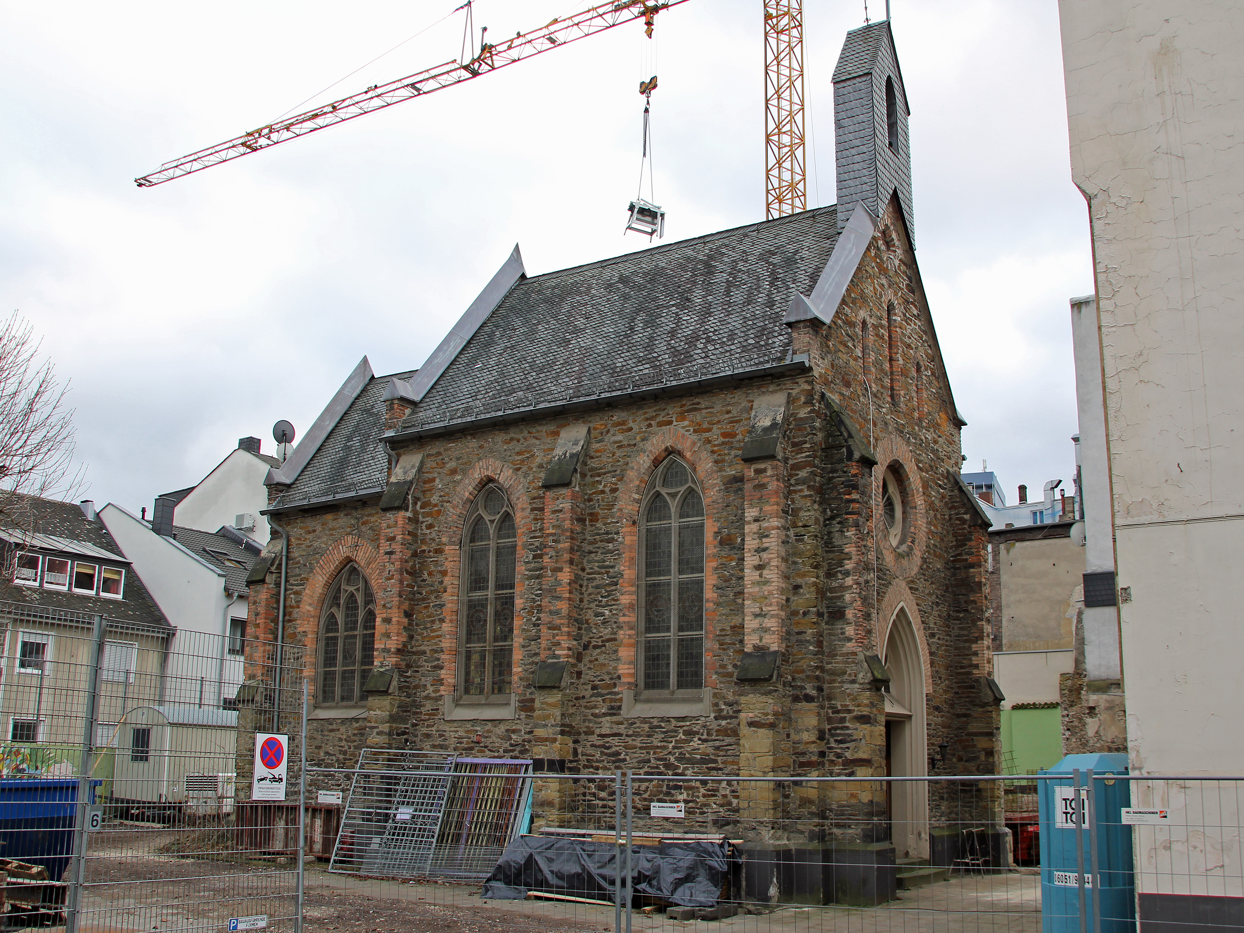 Peter-Friedhofen-Kapelle in Koblenz